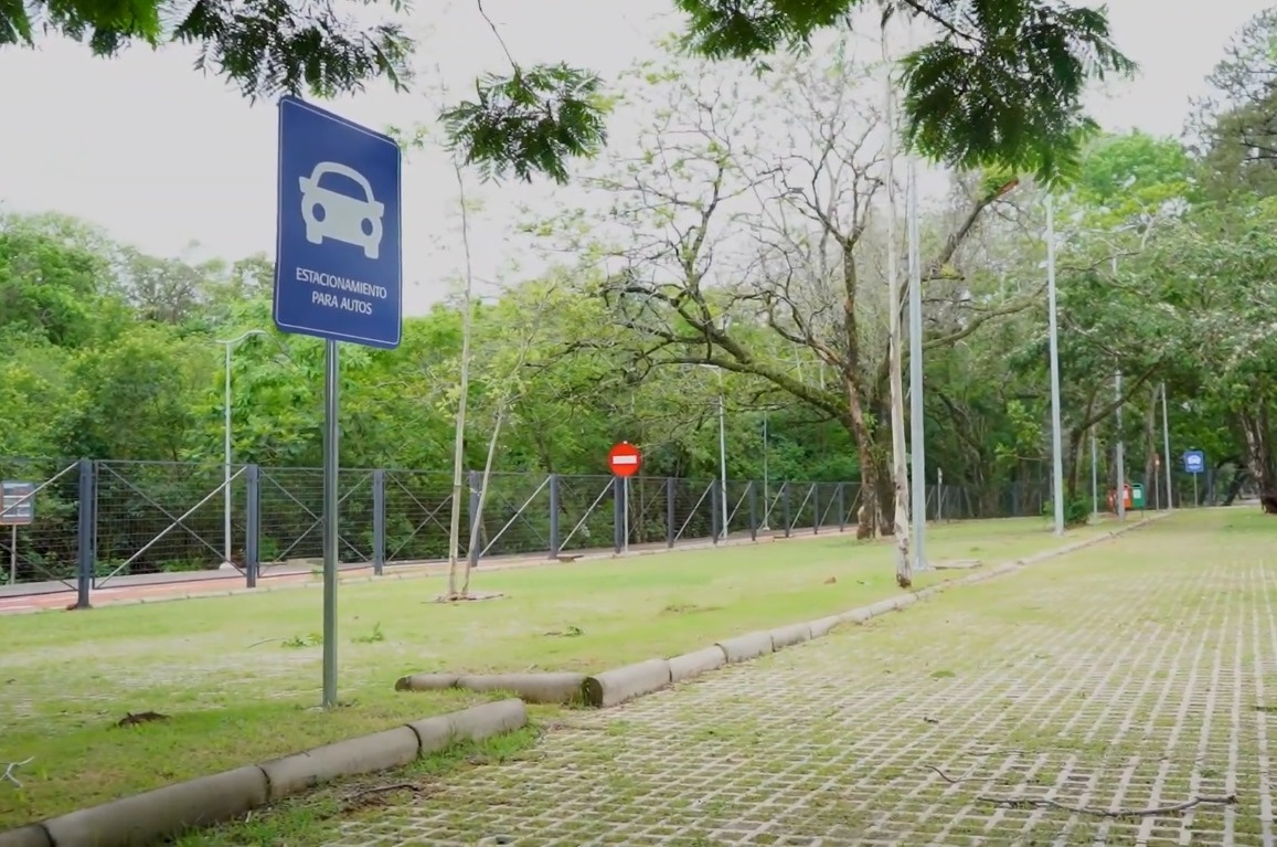 Itaipú Park in Ciudad del Este